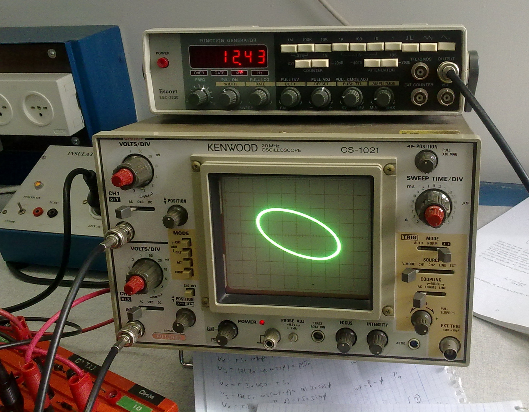 Lissajous curve At physics lab at the Technion (Israel)